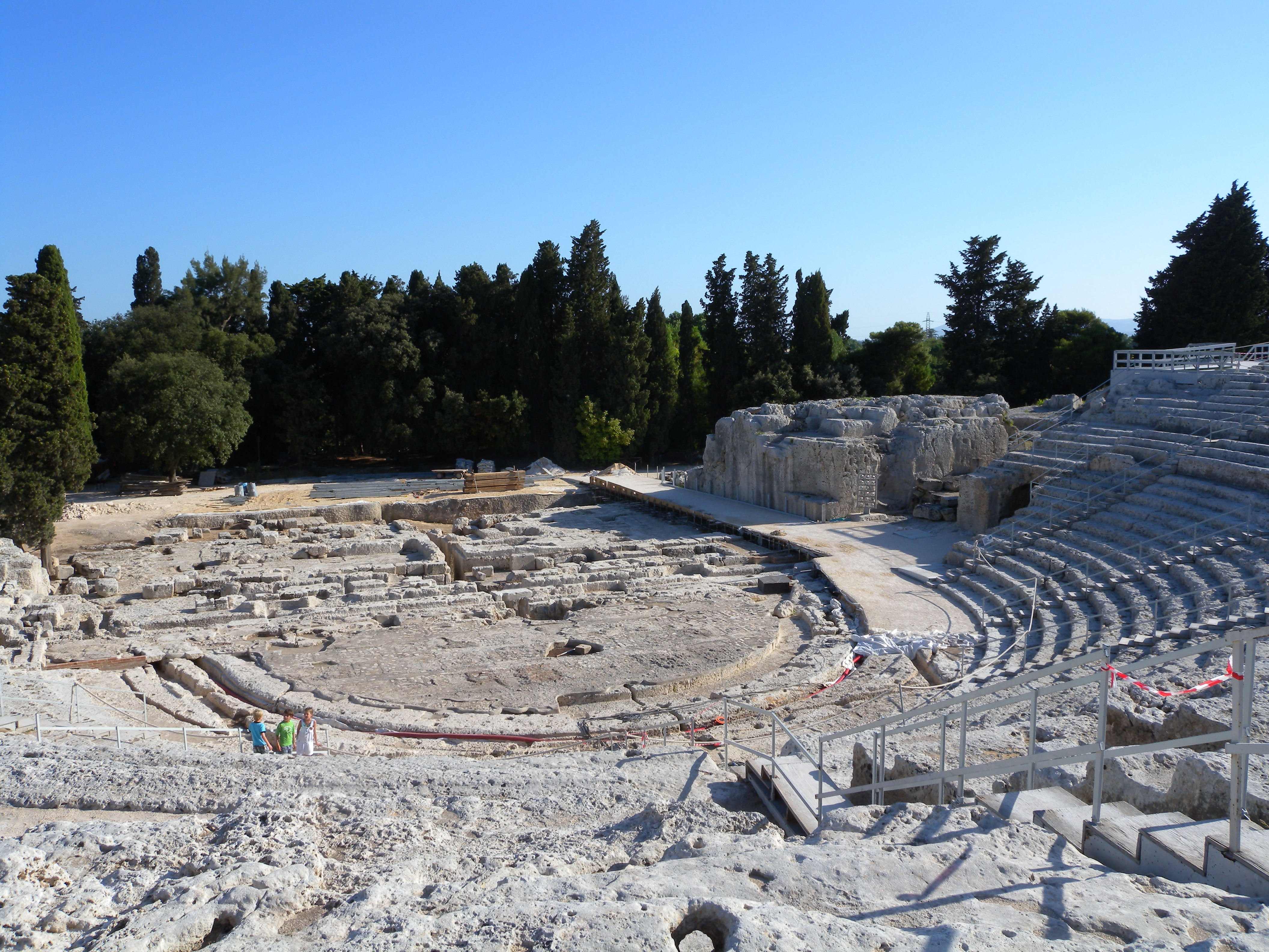 Syracuse, Sicily